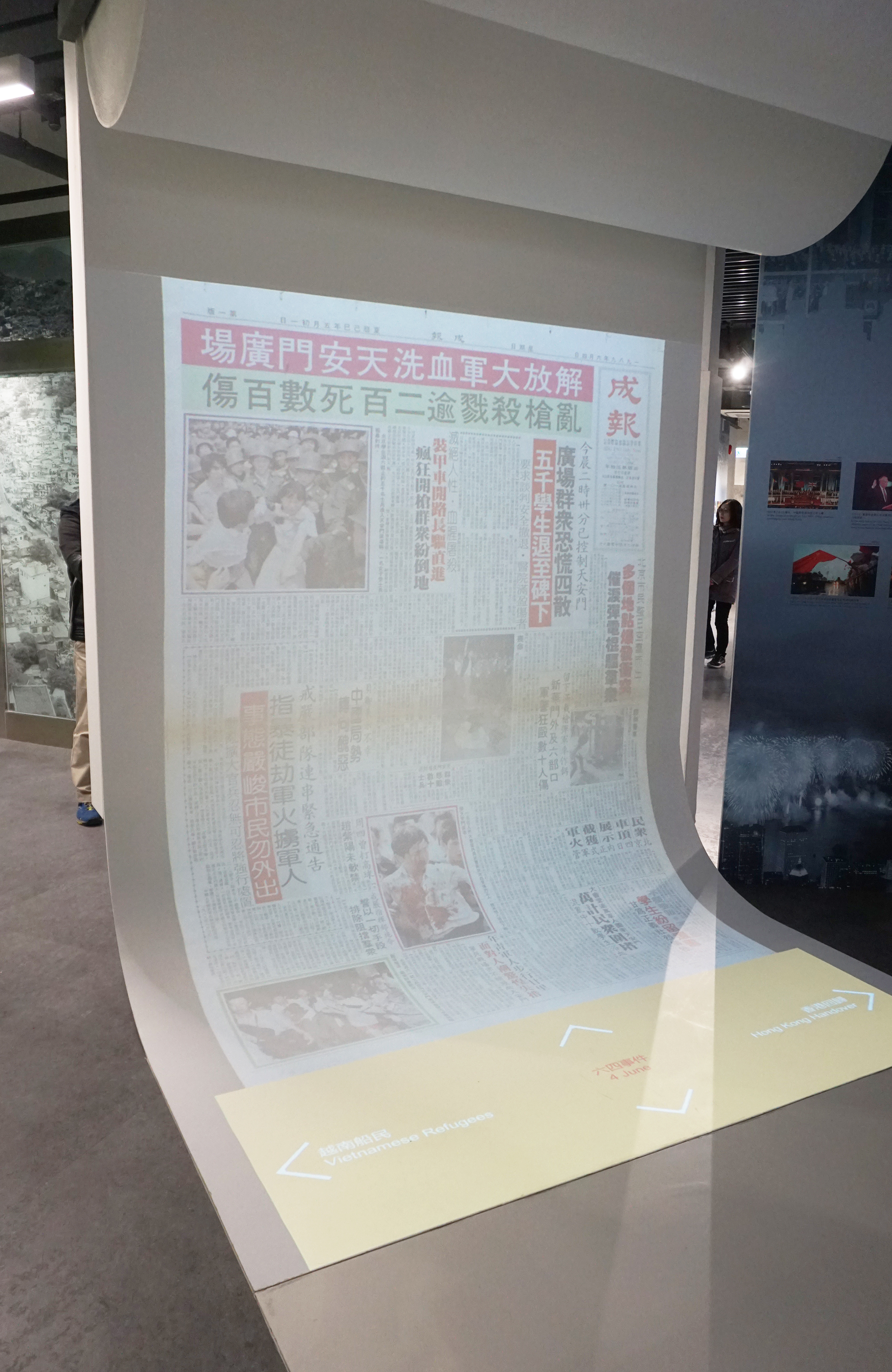 Hong Kong News-Expo in Central, Hong Kong.